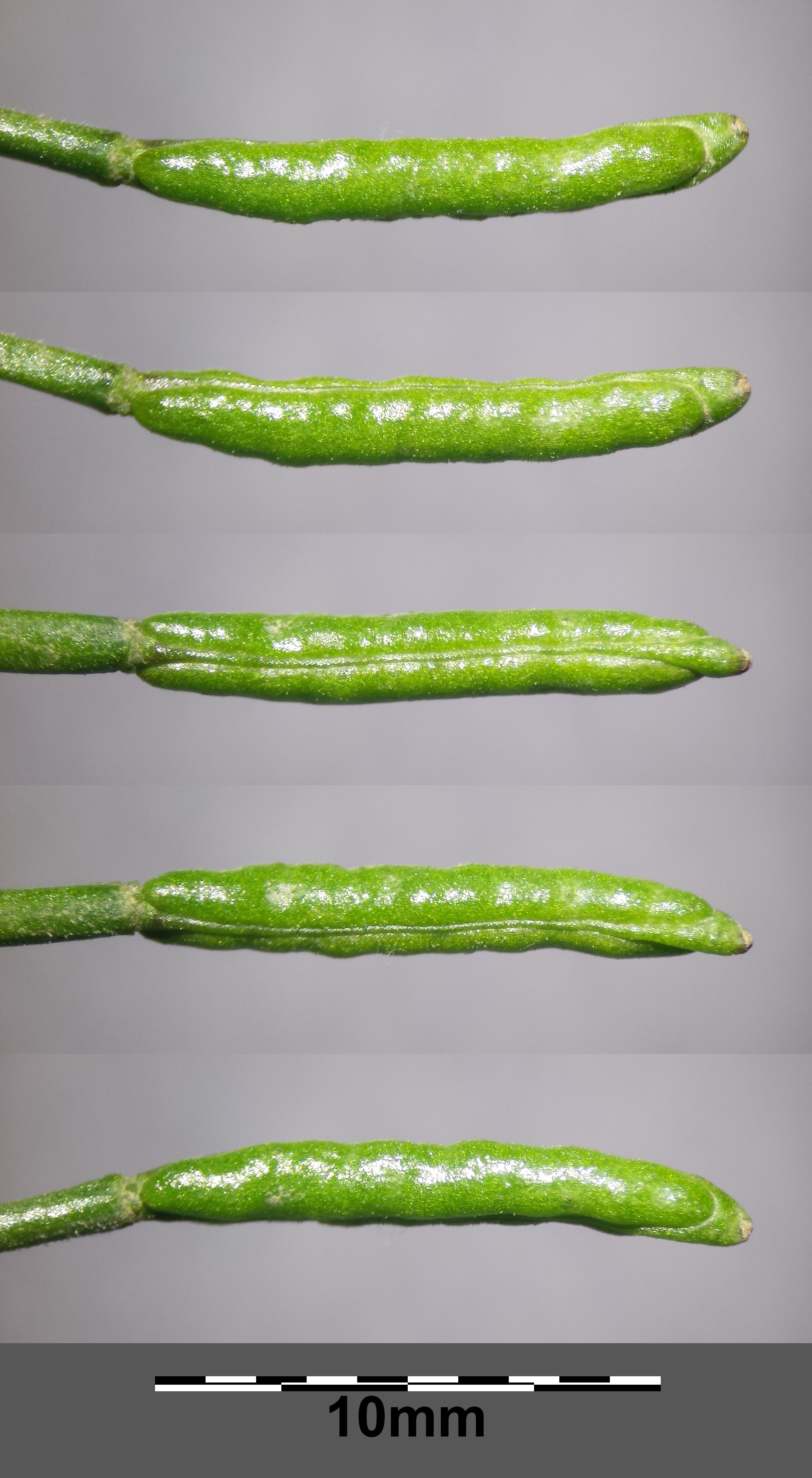 Silique Taxonym: Nasturtium officinale ss Fischer et al. EfÖLS 2008 ISBN 978-3-85474-187-9 Location: Senningbach next to Hatzenbach, district Korneuburg, Lower Austria - 180 m a.s.l. Habitat: stream